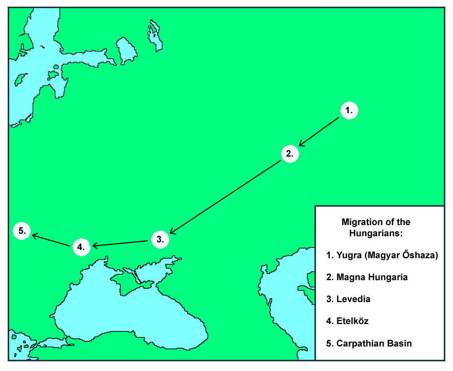 Migration of the Hungarians. From Image:Hungarian migration.png By User:PANONIAN (self made)